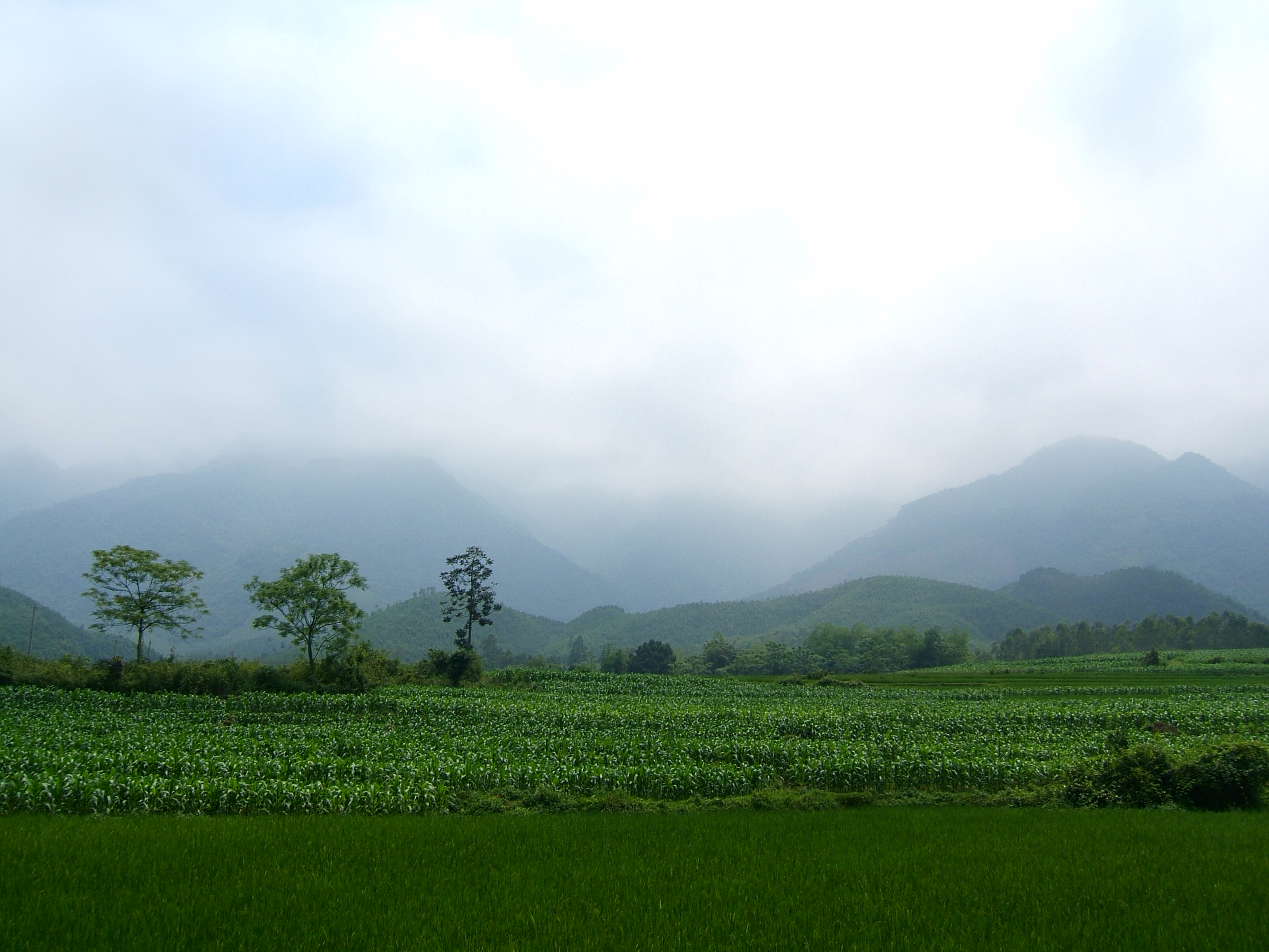 Thanh Sơn, Phú Thọ, Vietnam